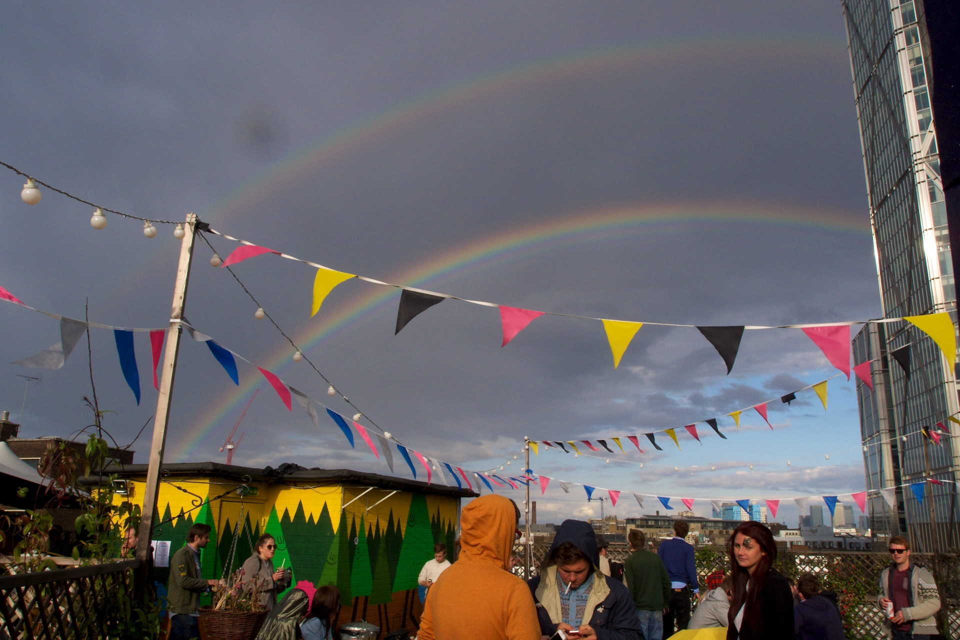 120/366 - Double rainbows over London